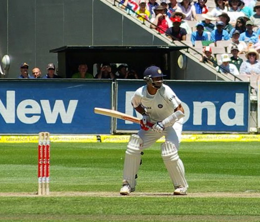 Former Indian captain Rahul Dravid at play.